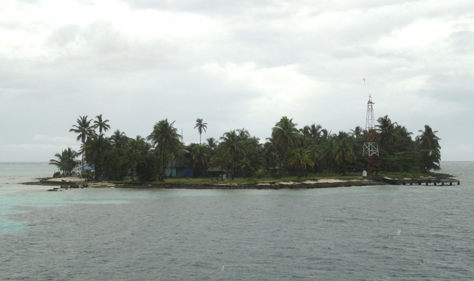 Córdoba Cay (Haynes Cay) from west